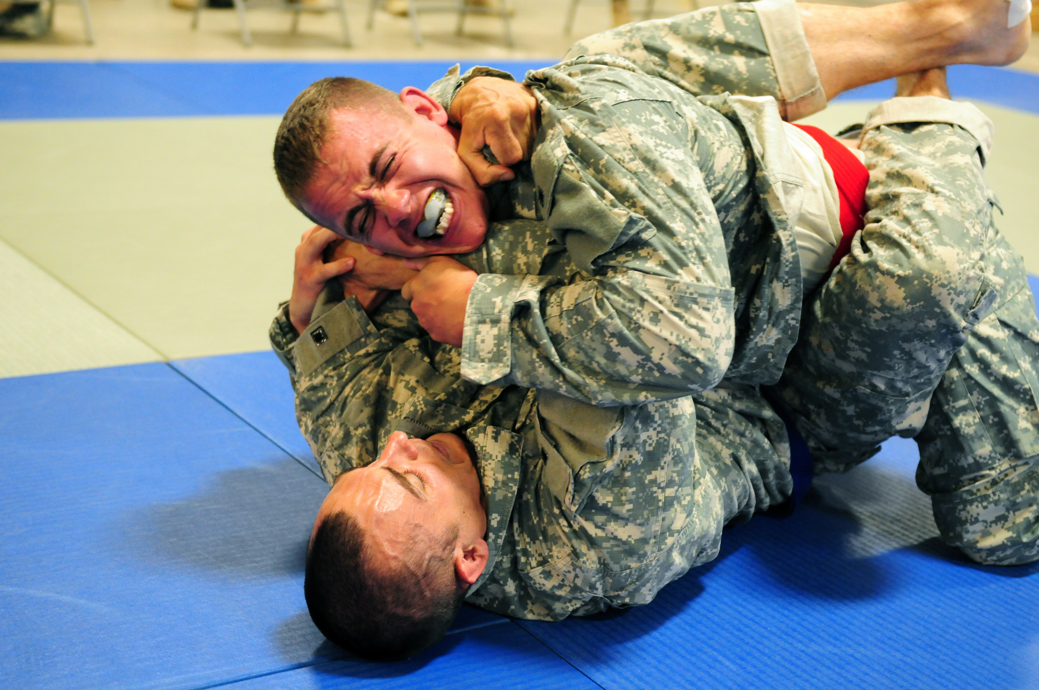 Spc. Dustin Chavez (bottom), a Soldier with the 2nd Medical Brig., puts a chokehold on Sgt. Nathaniel Boyd (top), a Soldier with 139th Medical Brig., during combatives competition at the 807th MDSC Best Warrior Competition. Chavez and Boyd were among seven competitors who were challenged throughout the week's competition in both physical and mental events.